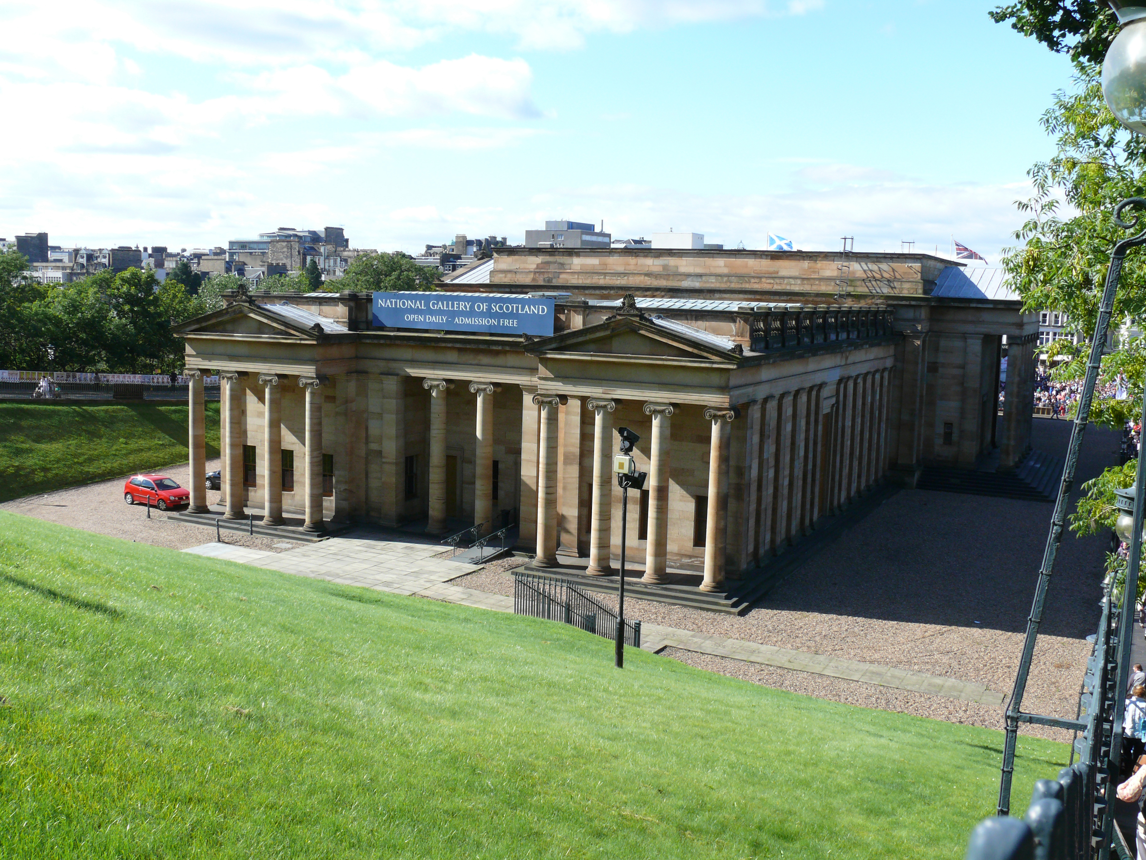 Edinburgh's National Gallery of Scotland, an elaborate neoclassical edifice, on The Mound.